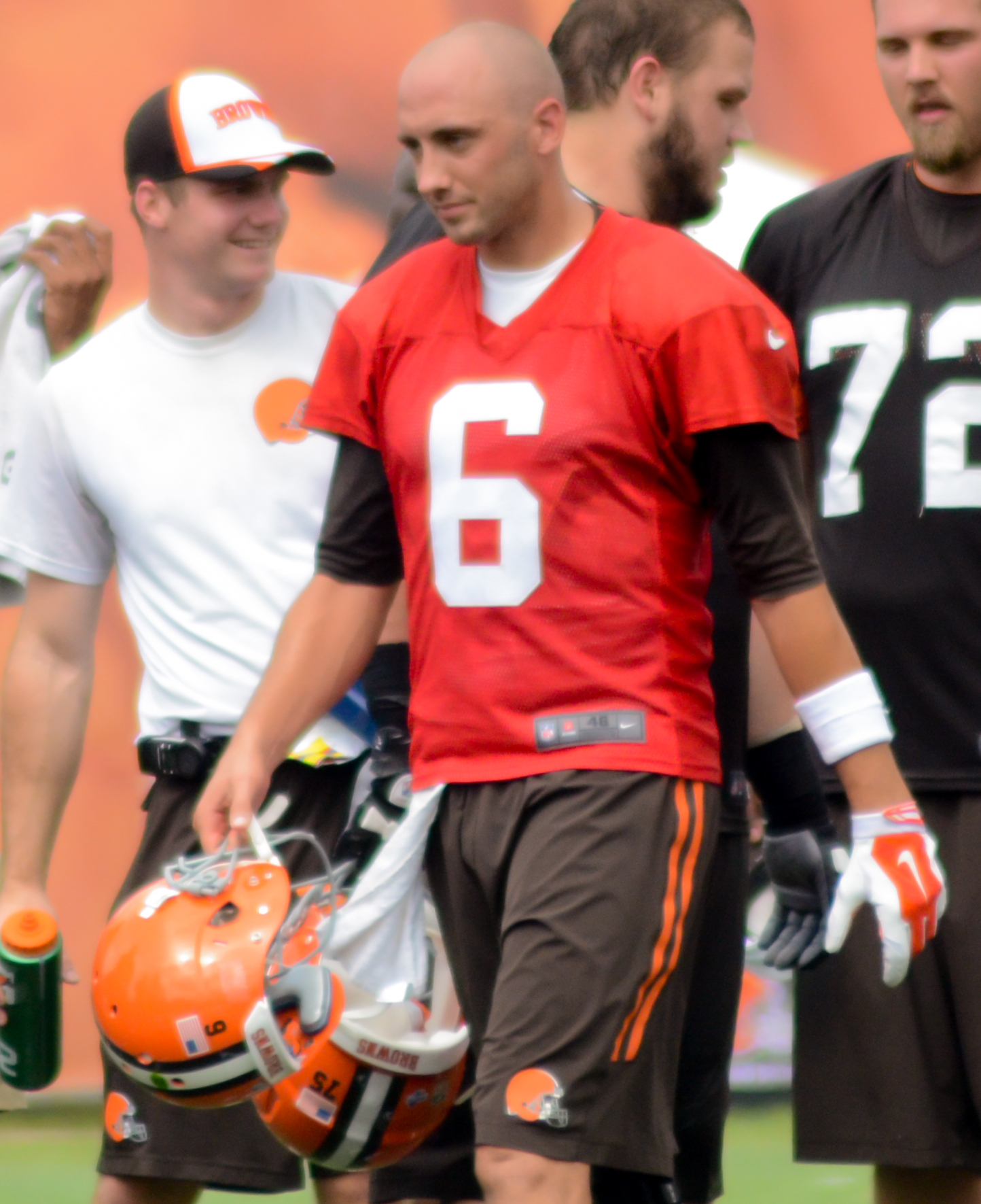 Brian Hoyer at 2014 Browns training camp.